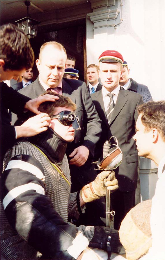 Academic fencing - Corporation Sarmatia Poland.